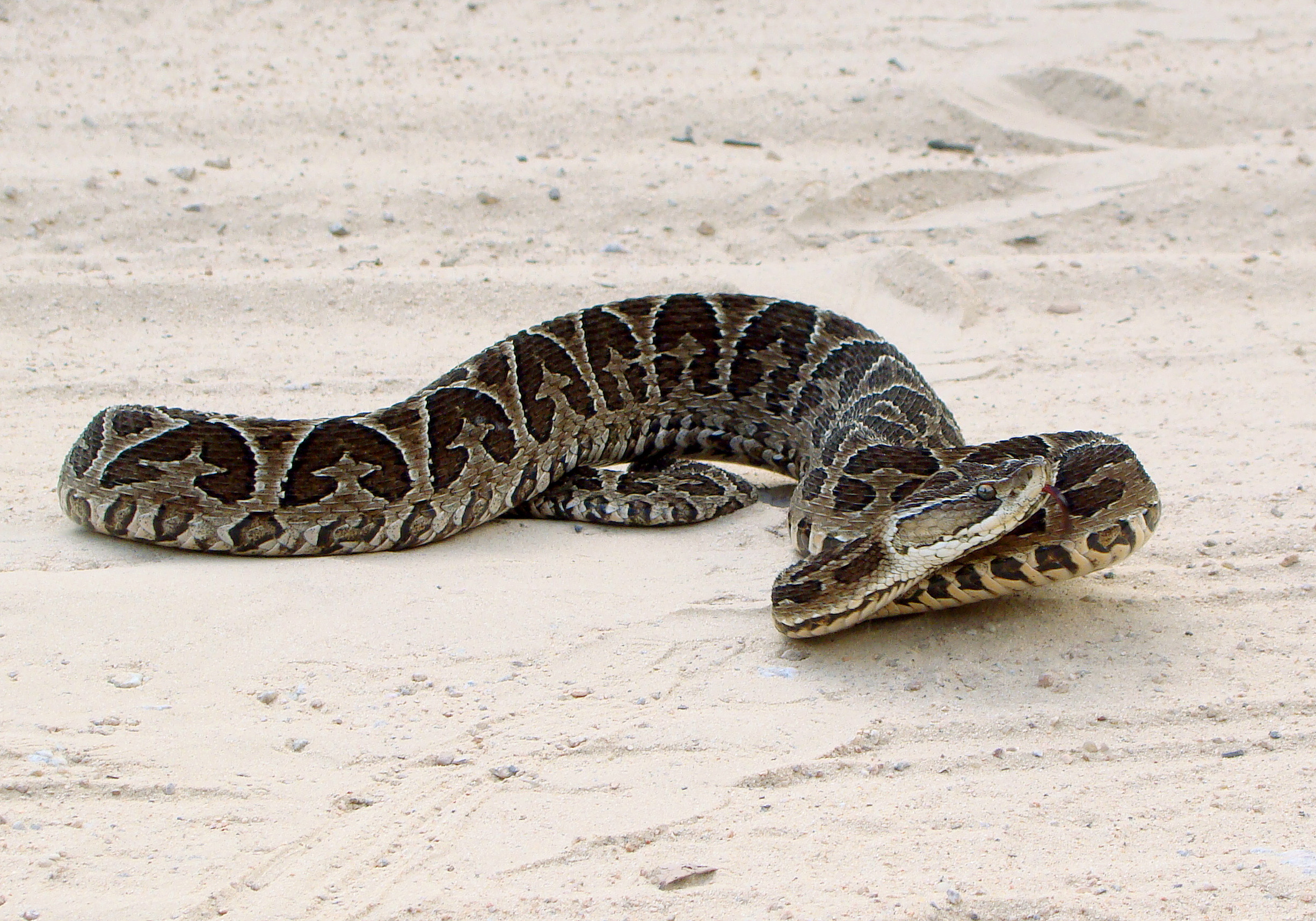 Bothrops alternatus photographed in Rio Grande do Sul, Brazil, in January 2010.